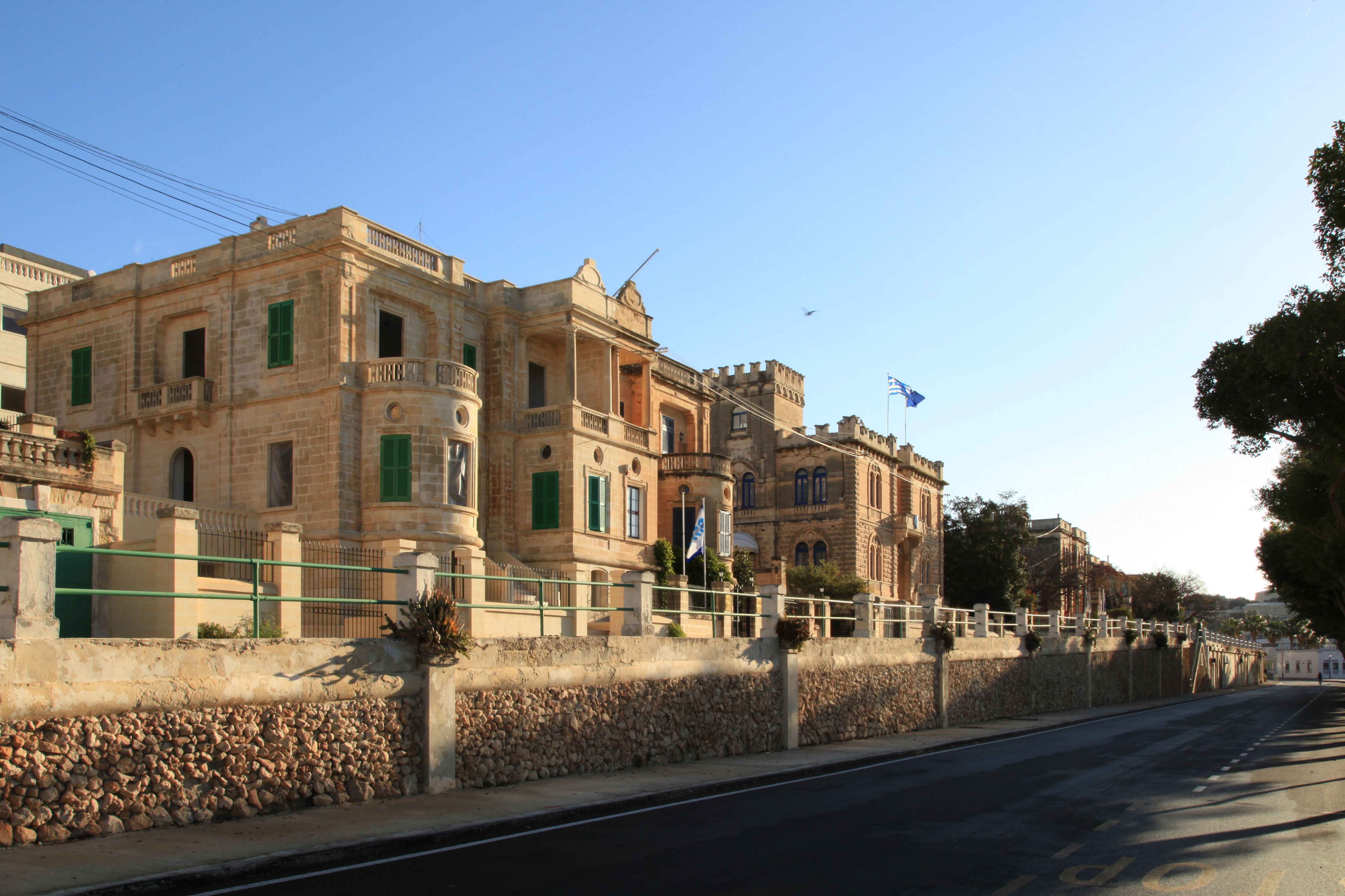 Ix-Xatt Ta' Xbiex (below) and Ir-Rampa Ta' Xbiex (above) in Ta' Xbiex, Malta